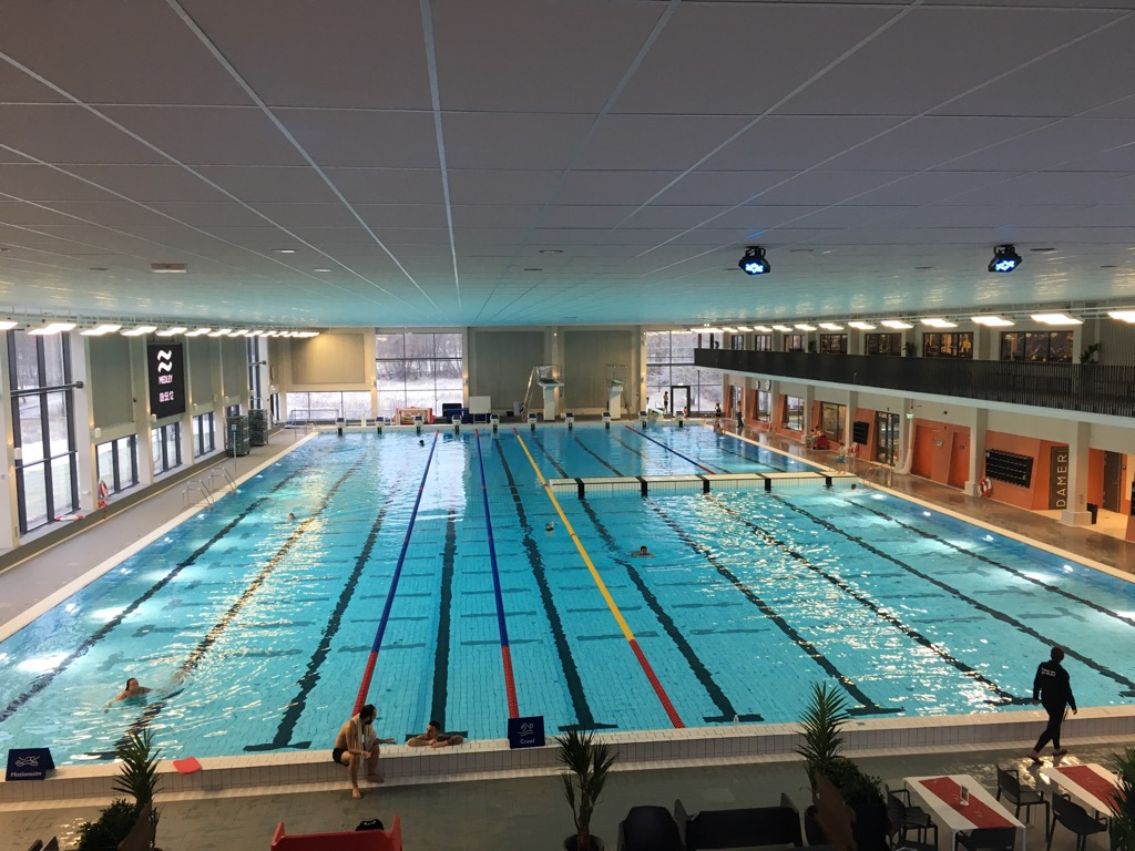 The inside of Järfällabadet